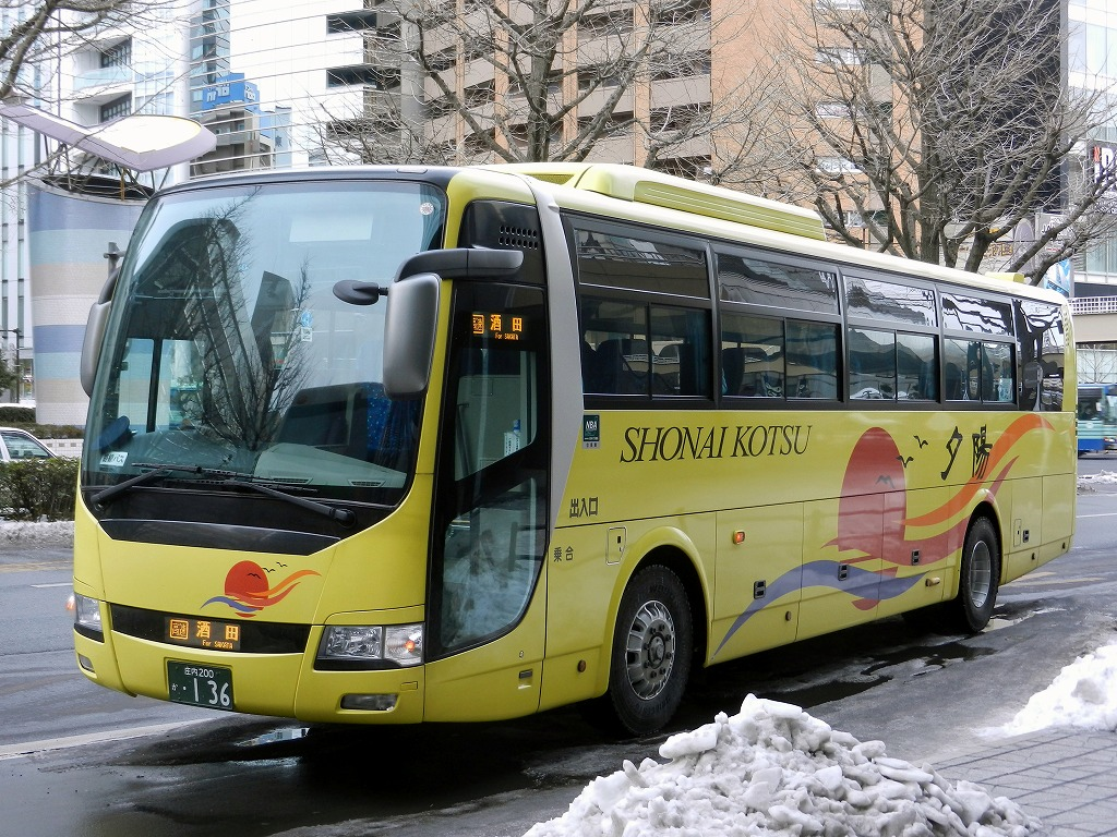 Shonai Kotsu Mitsubishi Fuso Aero Ace(BKG-MS96JP)Highwaybus Sendai-Sakata(You&He)